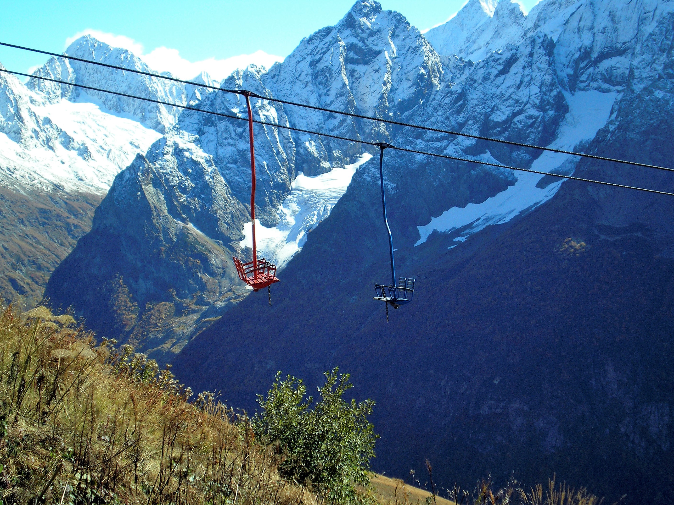 Dombay, Karachay-Cherkess Republic, Russia,chairlift